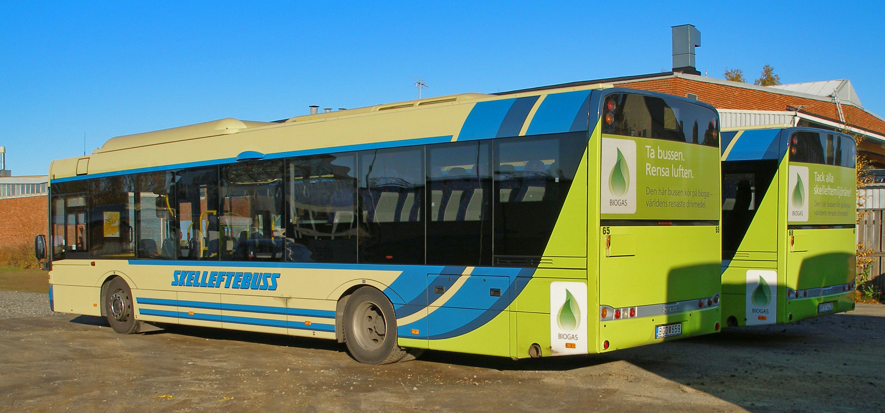 Two buses operated by biogas in Skellefteå, Sweden. From left to right: Solaris Urbino 12 LE CNG (#65, built 2007) and Solaris Urbino 12 LE CNG (#68, built 2008). Skelleftebuss AB from Skellefteå operator.